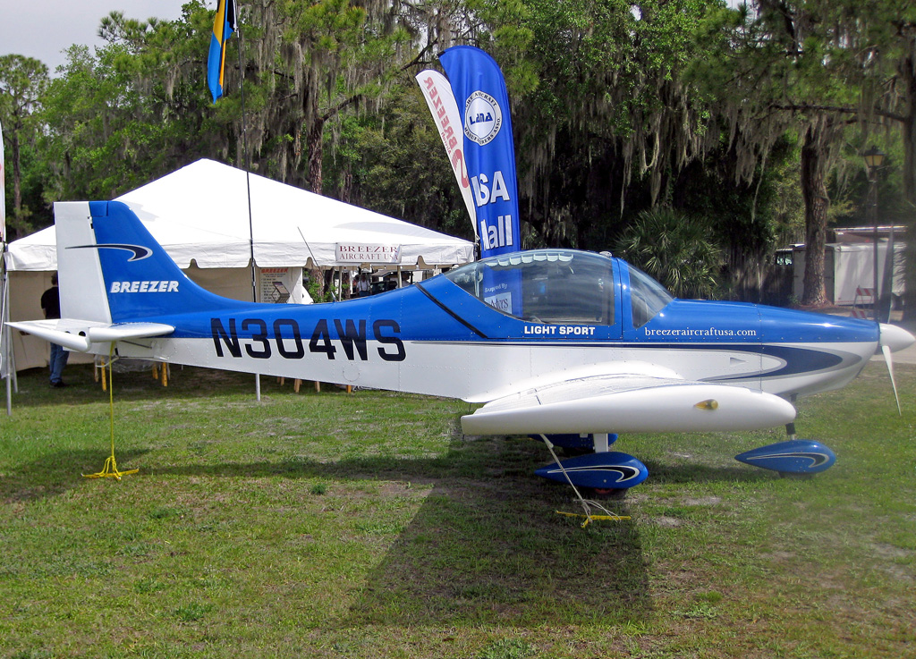 Breezer Light Sport LSA aircraft N304WS at Lakeland Linder Airport Florida